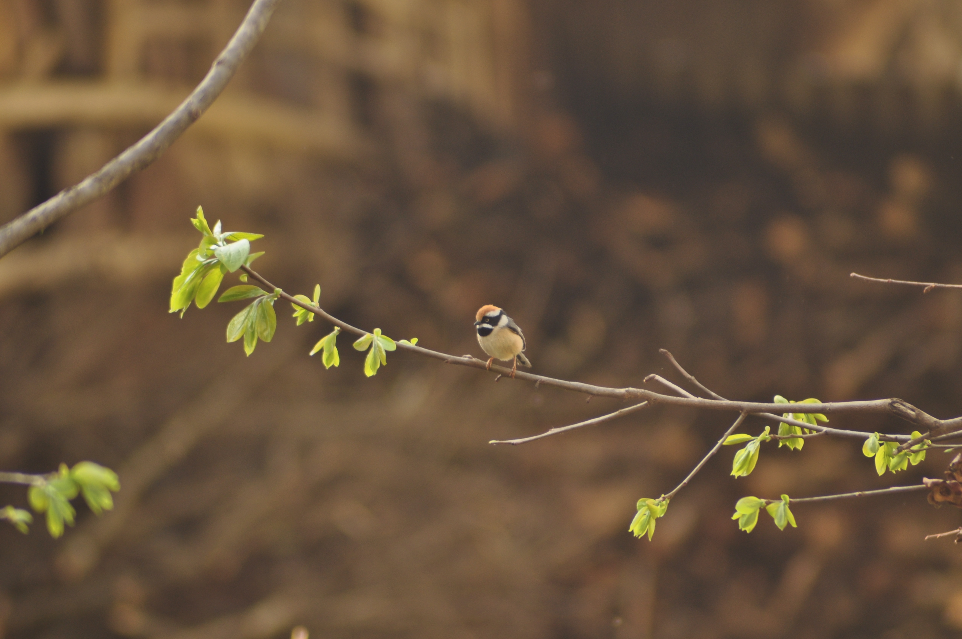 Birds in Sundarijal VDC